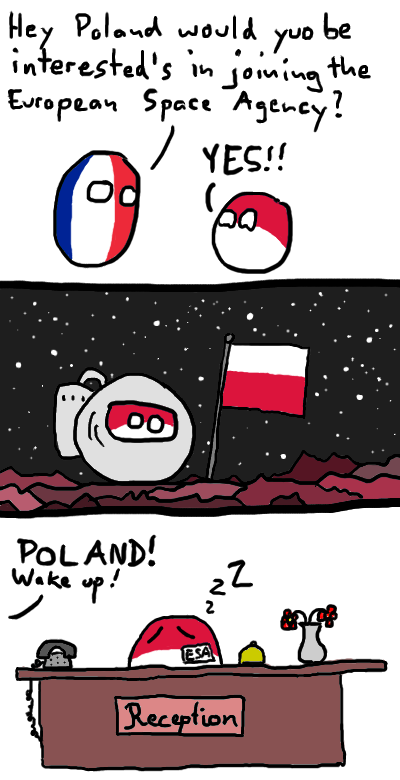 Polandball comic on the news that Poland joins the European Space Agency (news link)